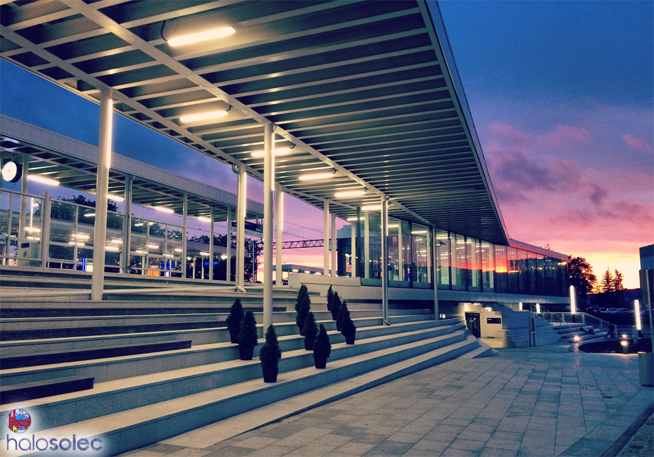 Punkt przesiadkowy i budynek dworca PKP w Solcu Kujawskim.